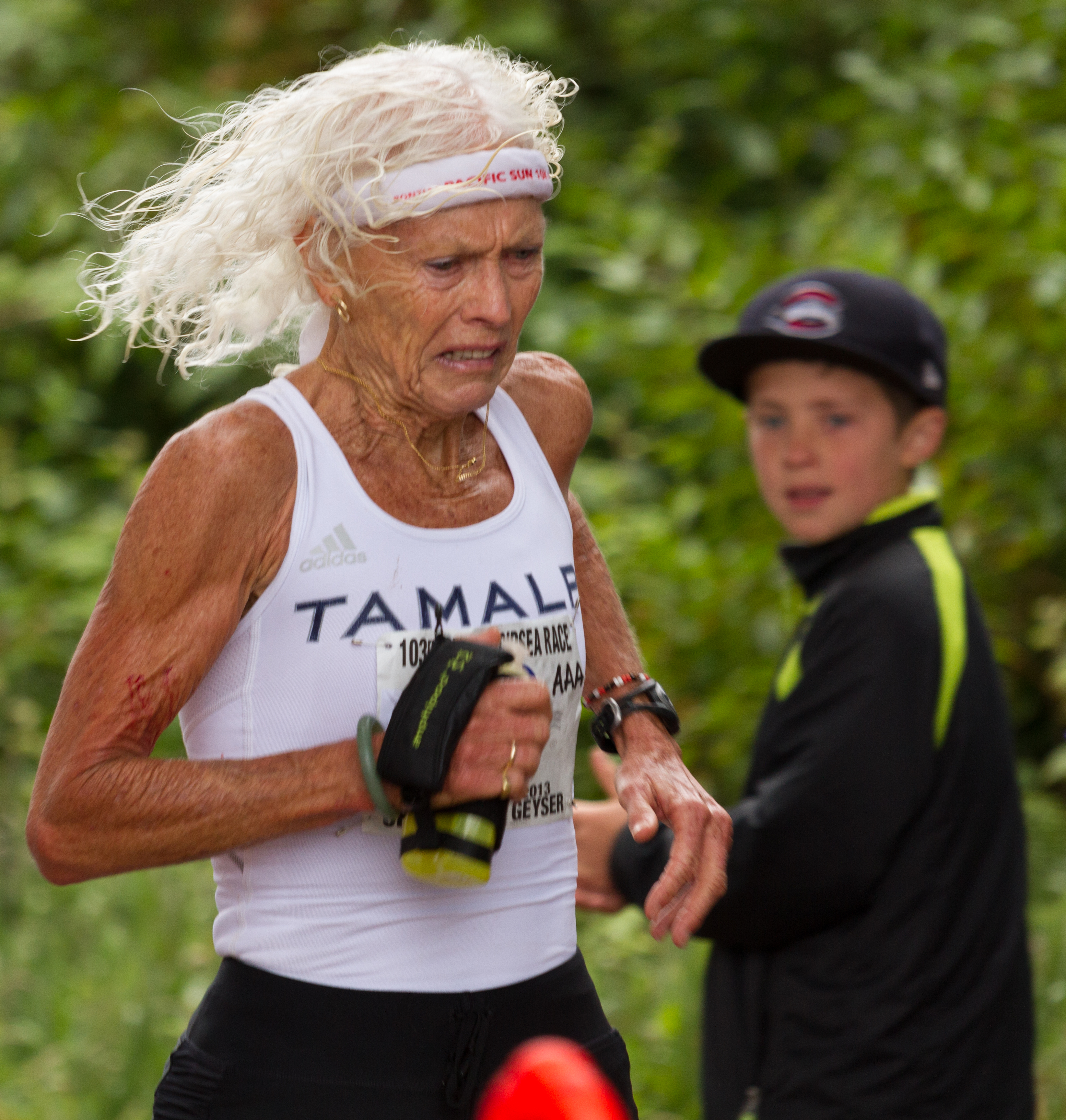 103rd annual Dipsea Race from Mill Valley to Stinson Beach.